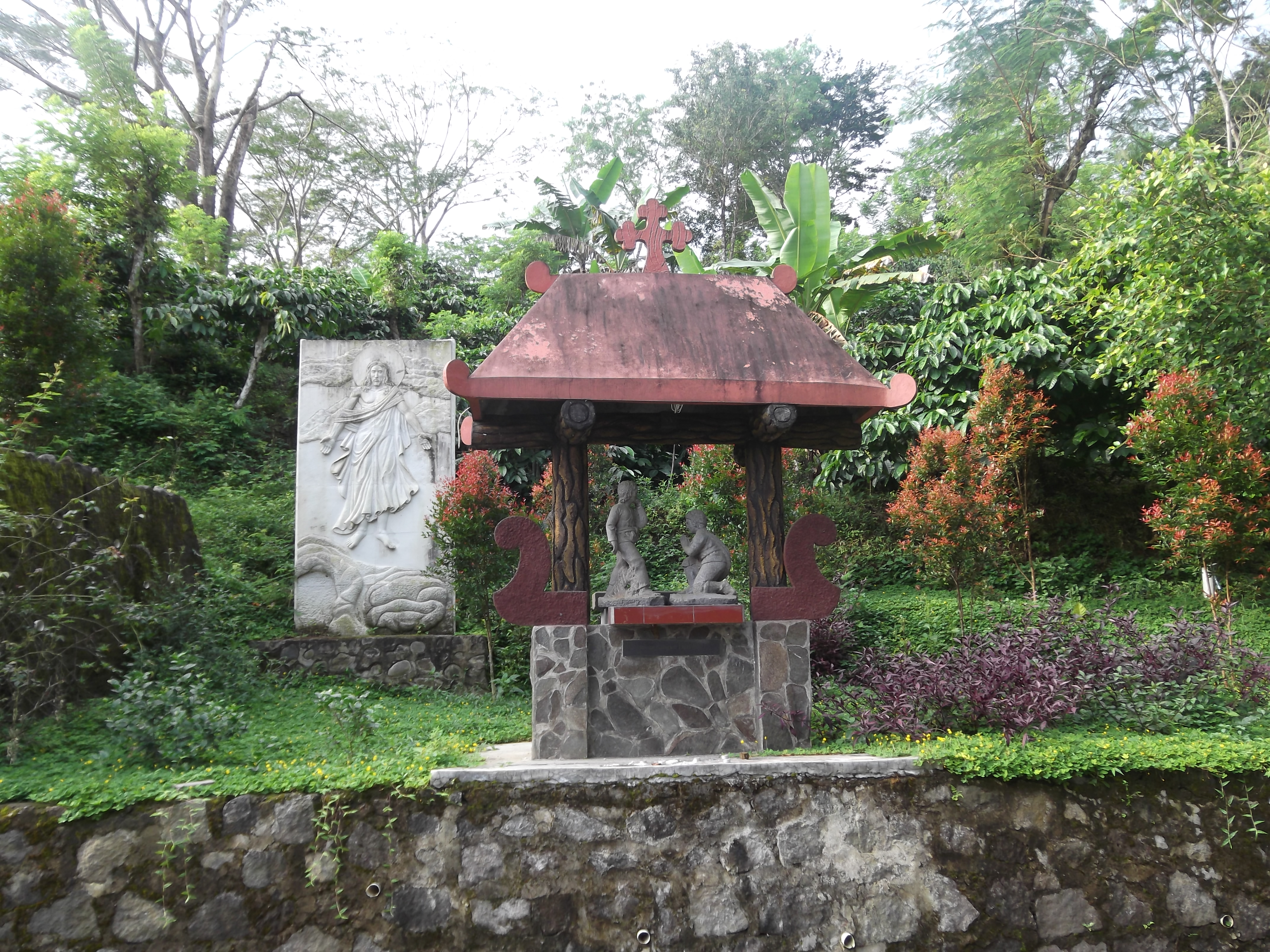 Last Station of the Cross in the Saint Mary Rawaseneng Prayer Garden, in the Monastery of Saint Mary Rawaseneng complex, Temanggung, Indonesia.